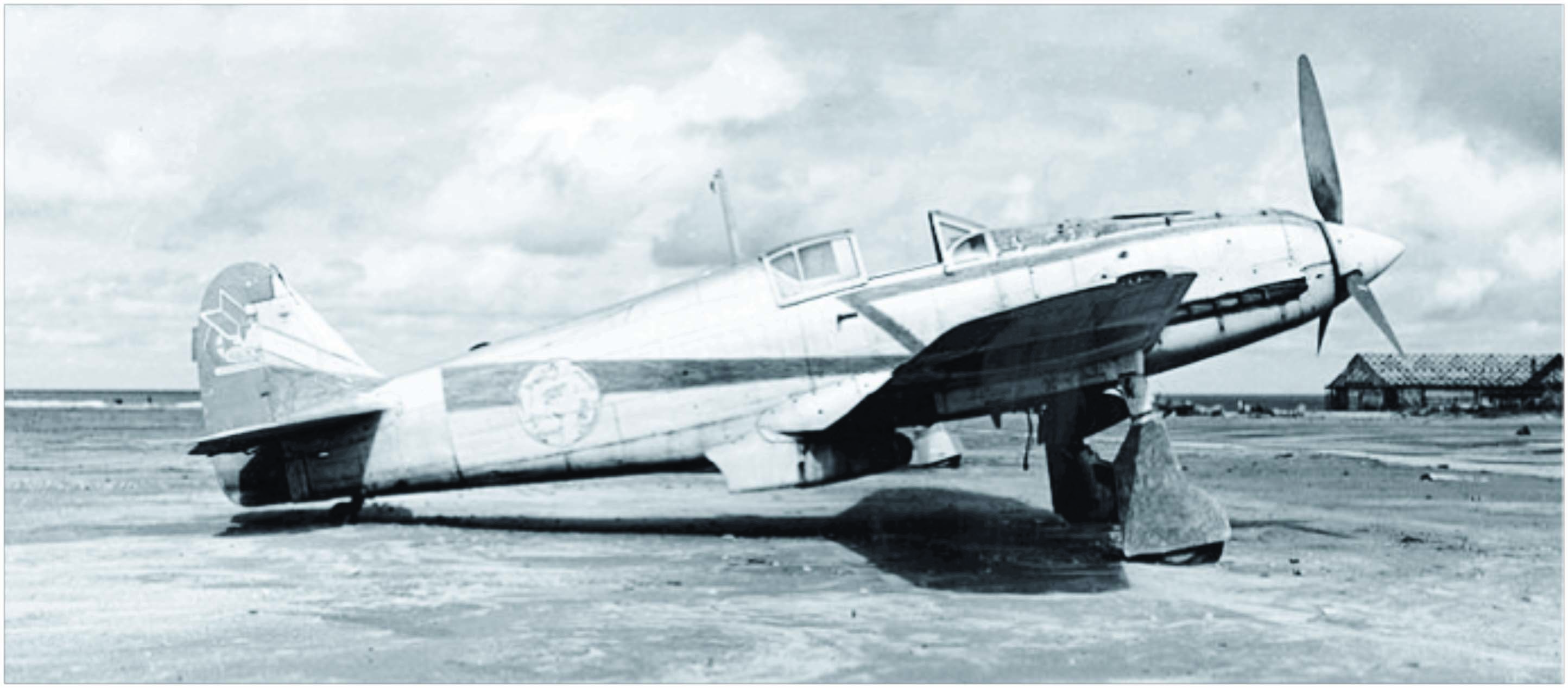 A Japanese Kawasaki Ki-61 Hien (Allied code name "Tony").